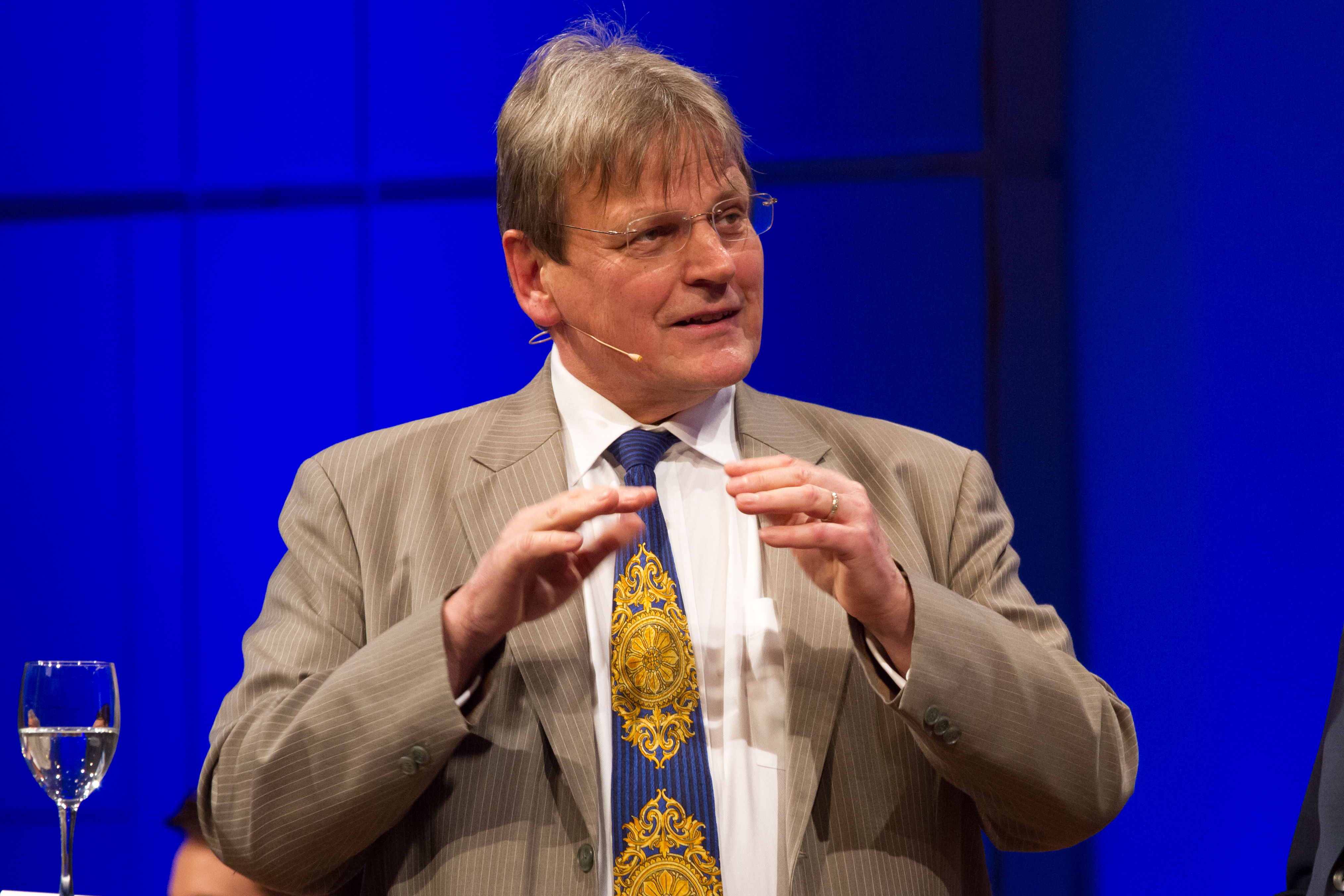 Series: 112th regular party convention of the FDP Baden-Württemberg in Stuttgart on January 5th, 2015 Image: Eicke Weber (guest speaker)